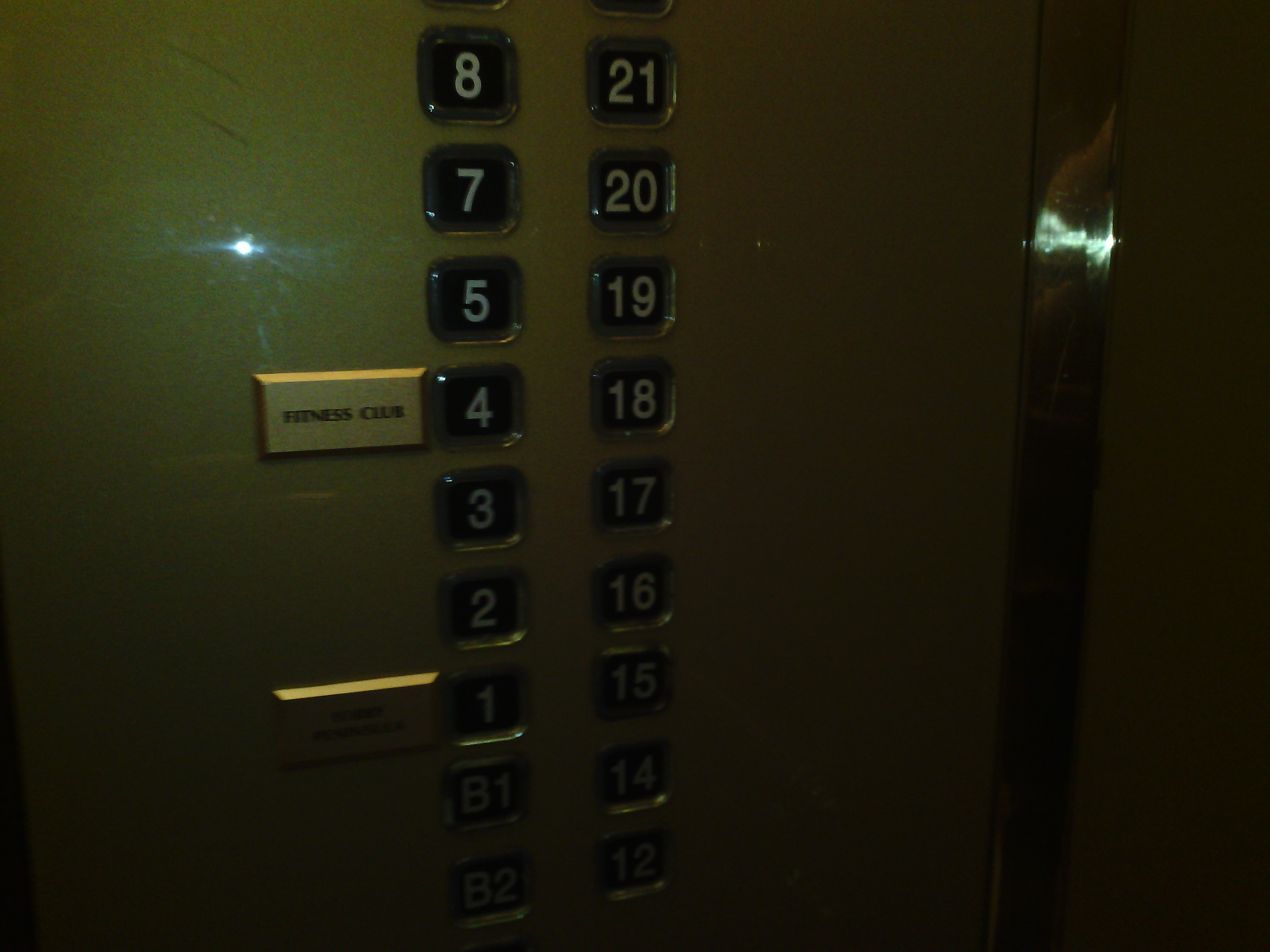 Lotte Hotel in South Korea, Ulsan. 13th Floor is missing.